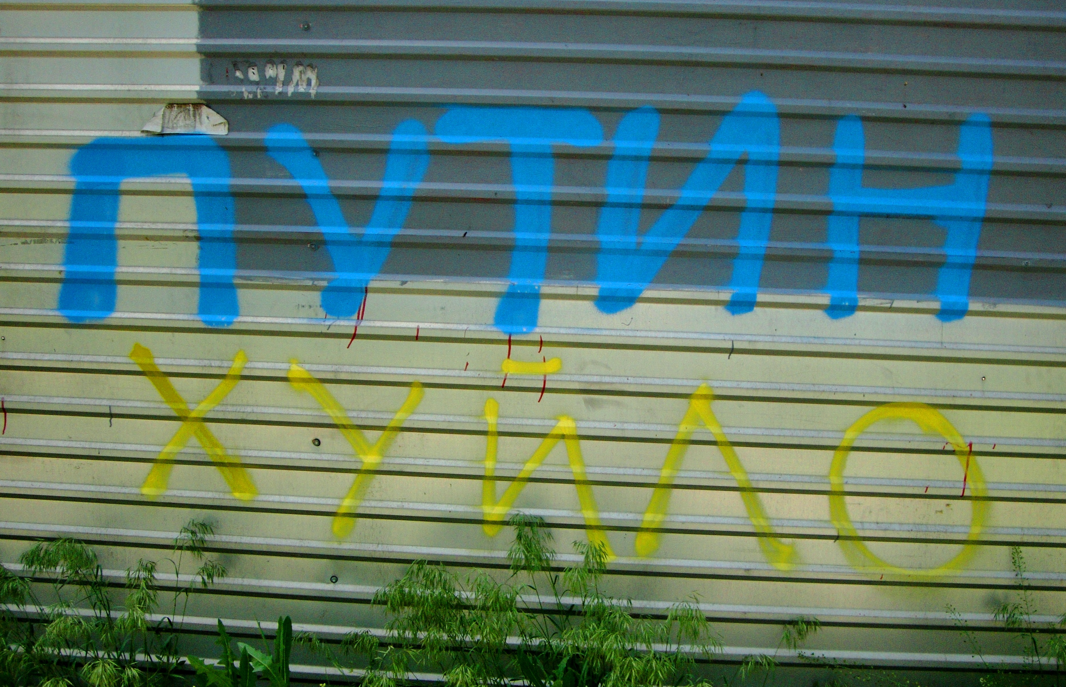 Inscription on the fence in Luhansk, Ukraine: "Putin dickhead"